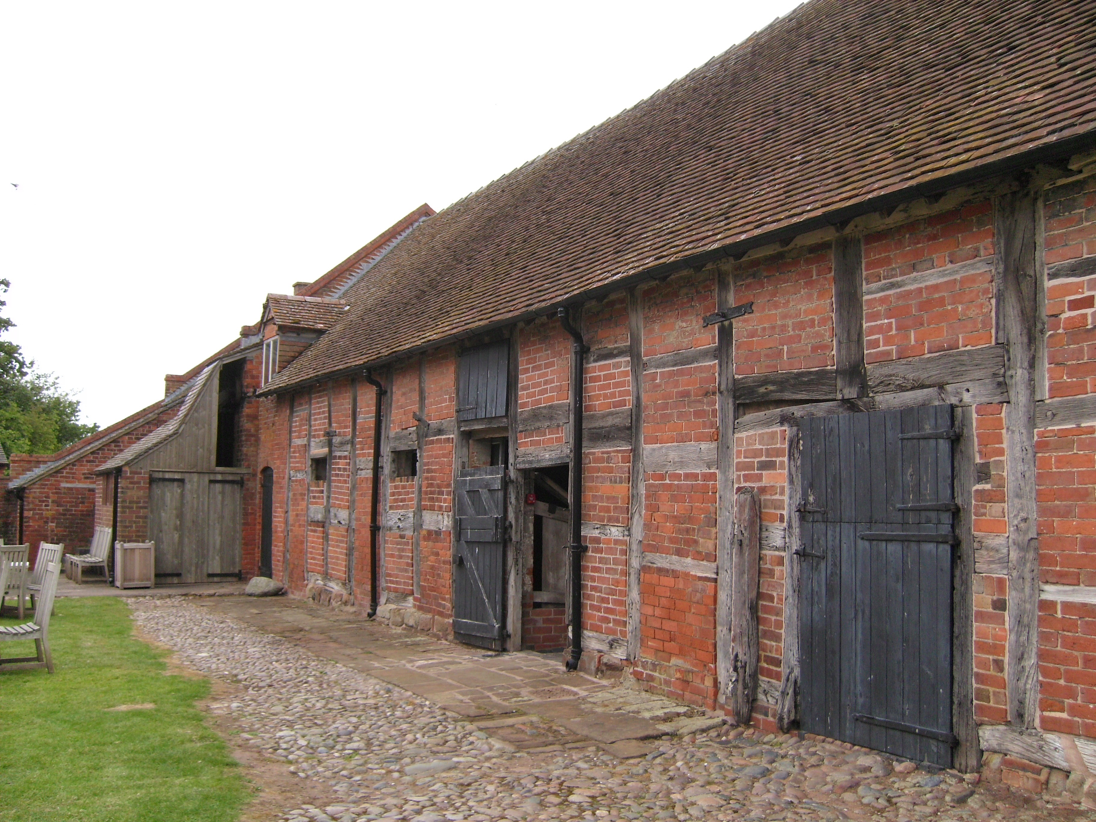 16th century barn at Boscobel House, Shropshire.